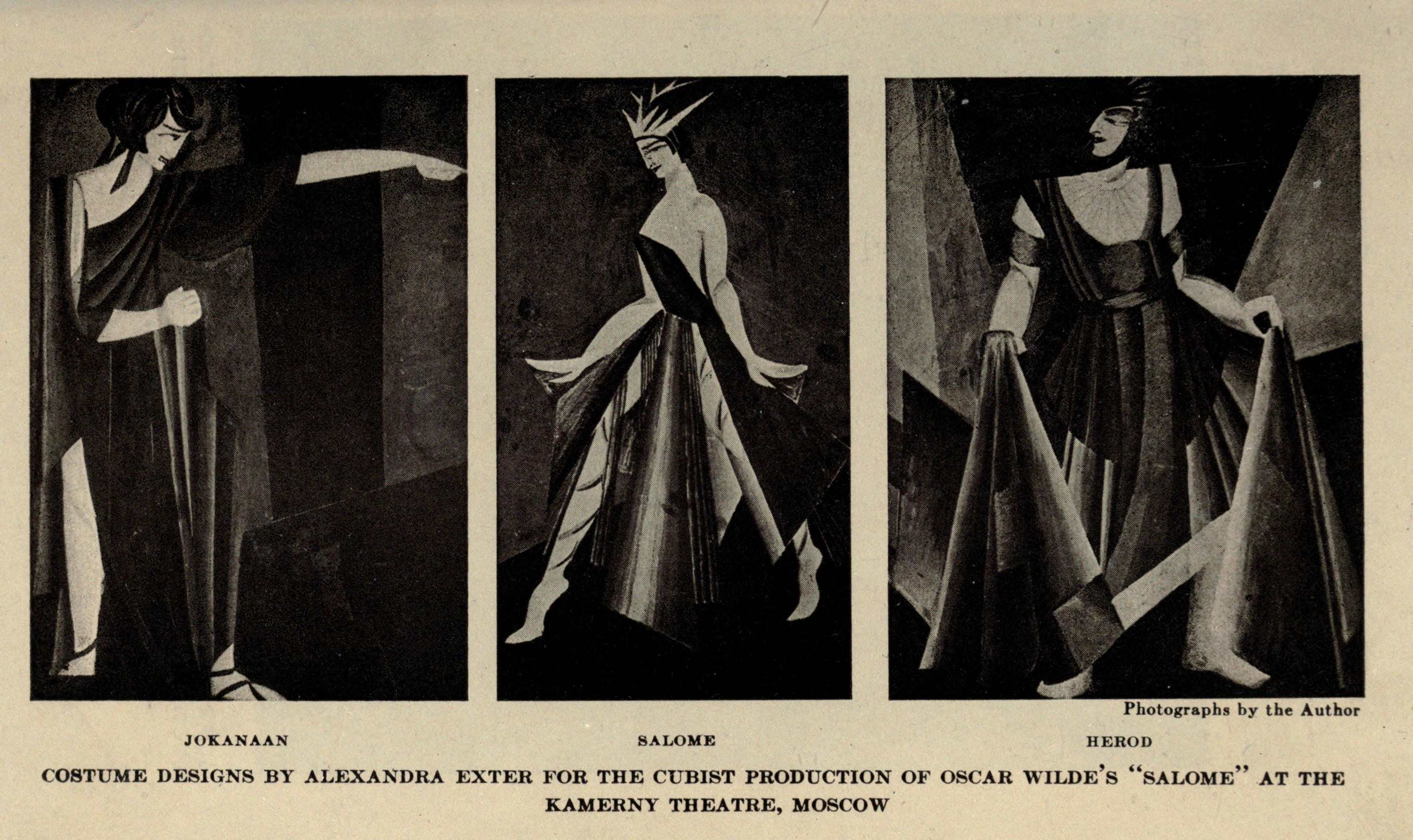 Cubist costumes designed by Aleksandra Ekster for Wilde's play Salome.